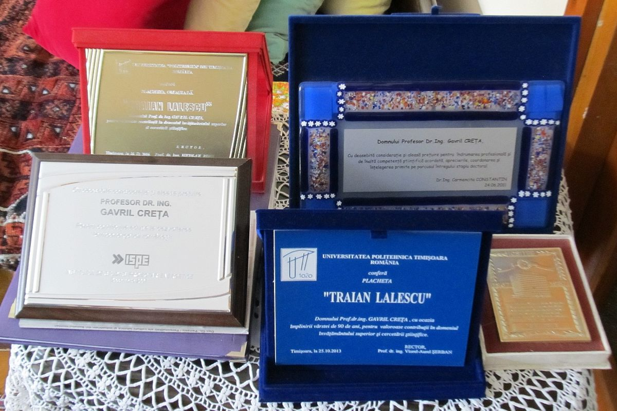 Gavril Creța - awards plaques